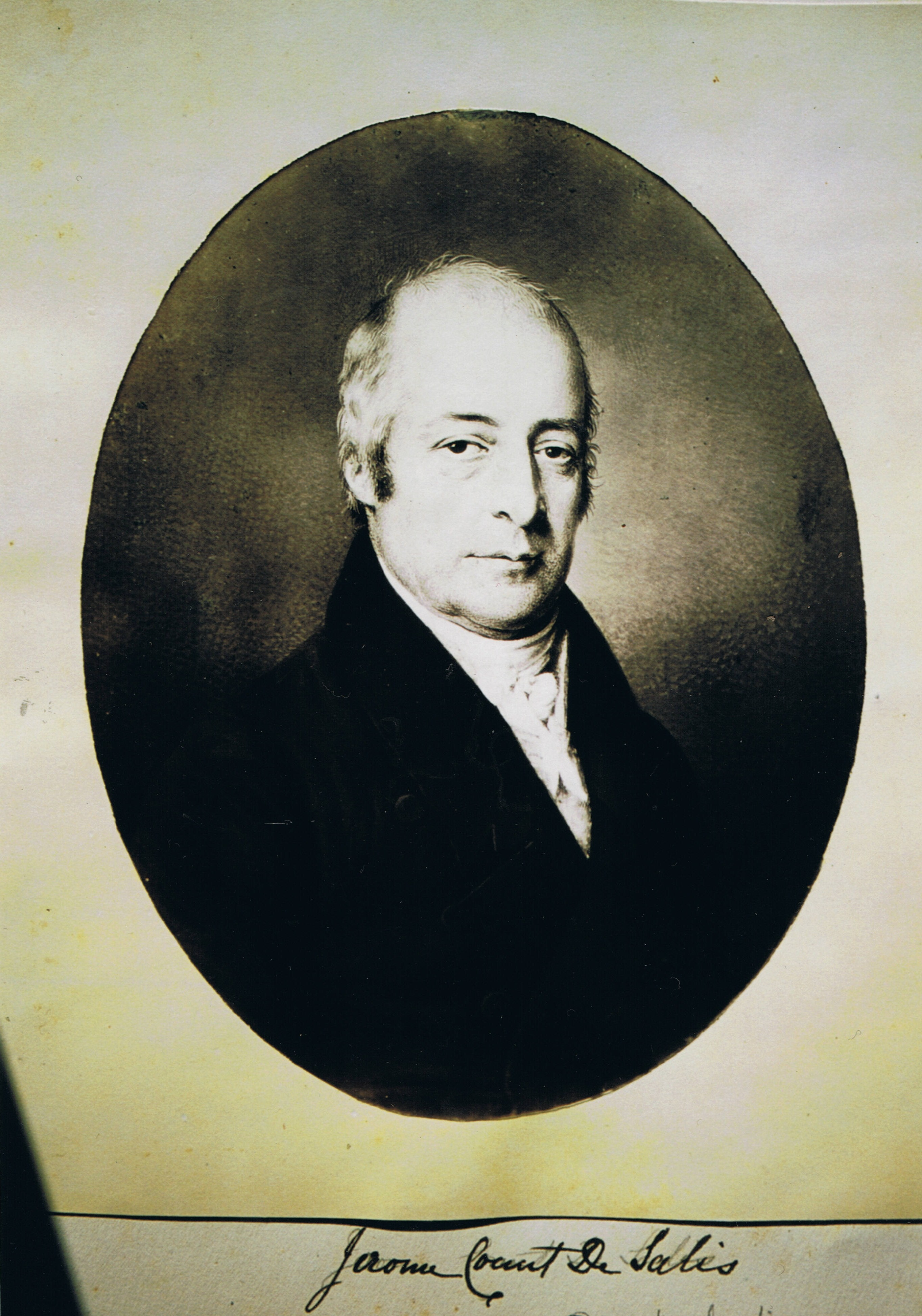 photo (R. de Salis Oct 2009) of a photo of a drawing (c.1810-20) of Jerome de Salis (d.1836)Rodolph (talk) 14:32, 24 November 2009 (UTC)